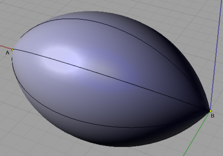 Photograph of a painting with the consent of the author.